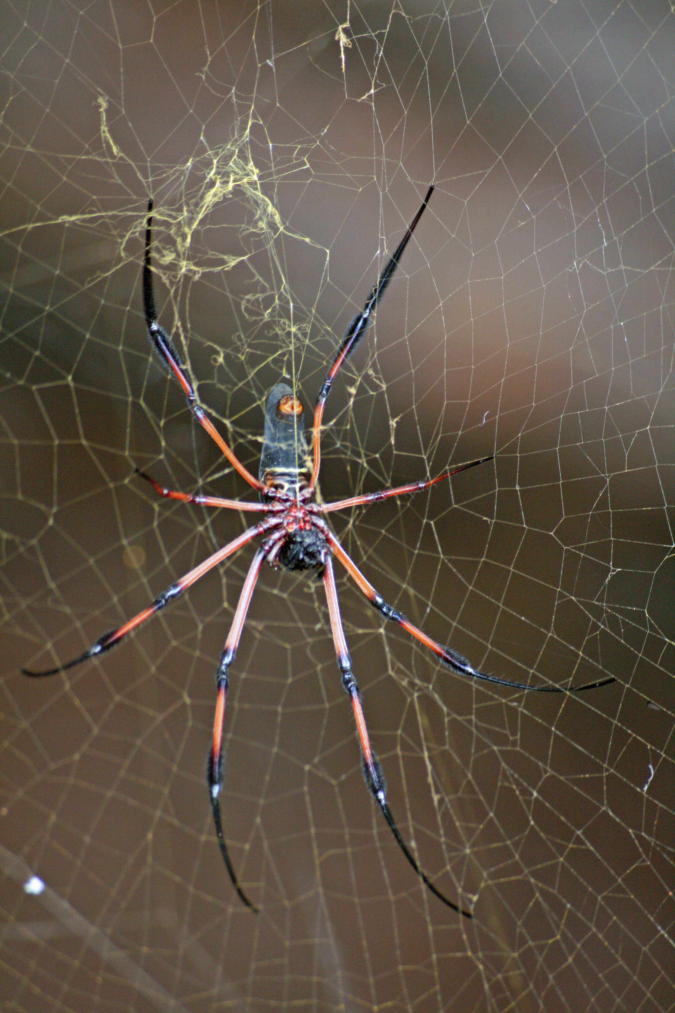 Nephila inaurata ("Palm Spider") on La Digue island on the Seychelles